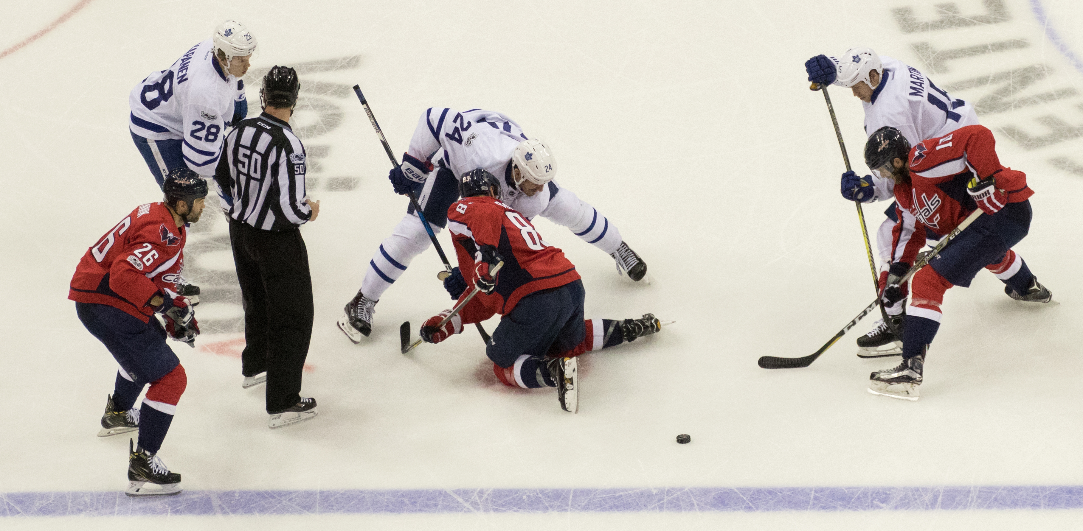 NHL 2017 Playoffs, Round 1, Game 5: Capitals 2, Toronto Maple Leafs 1